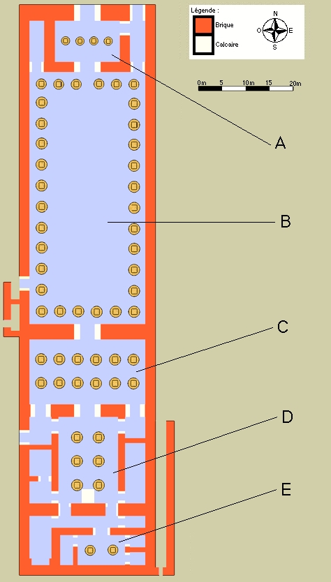 Plan of Merenptah's palace at Memphis - 19th dynasty of Egypt. Source : H. Sourouzian. Les monuments de Mérenptah ; website : Digitalegypt